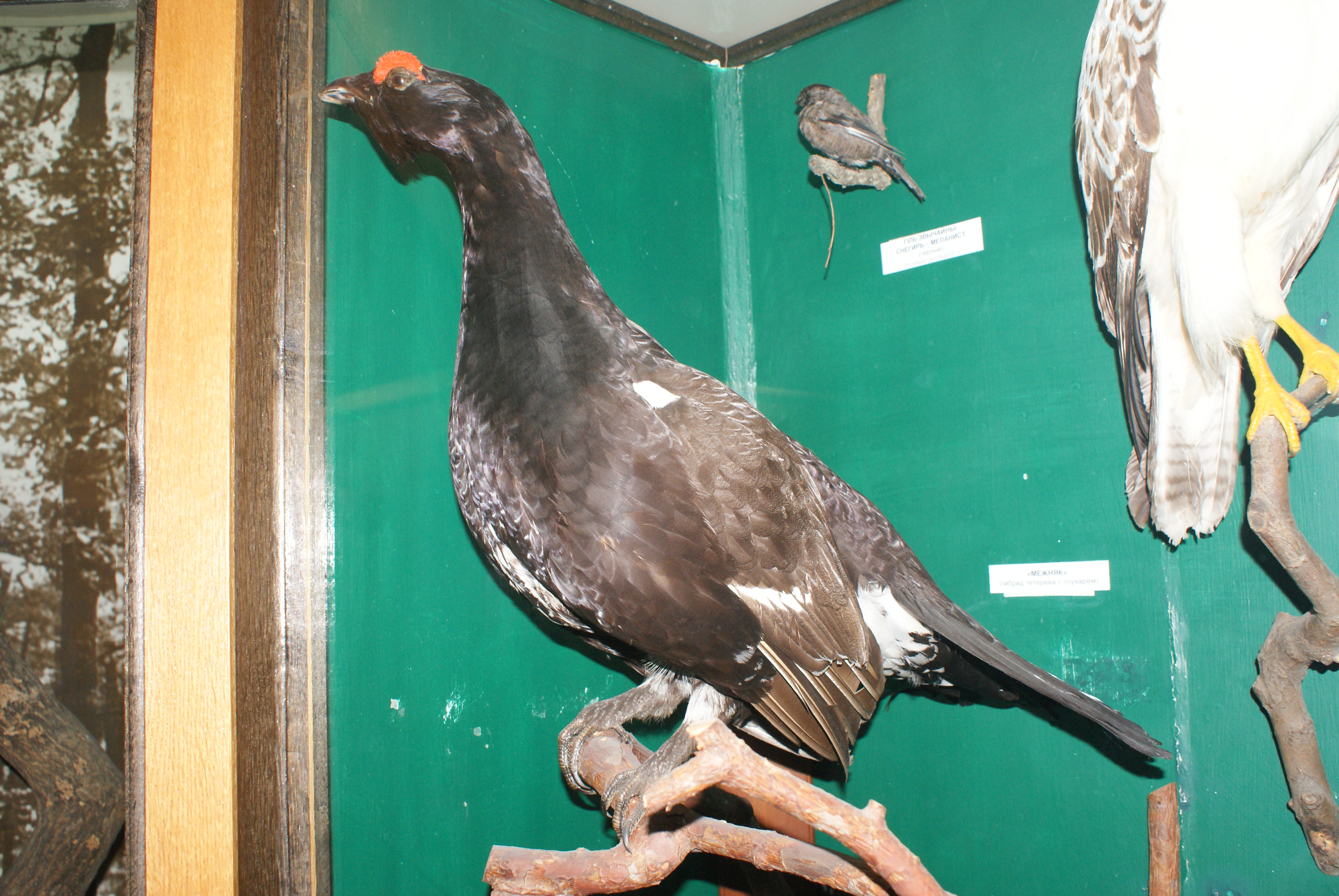 "Tetrao medius" = hybrid Tetrao urogallus × Lyrurus tetrix. Belarusian Nature and Environment Museum.